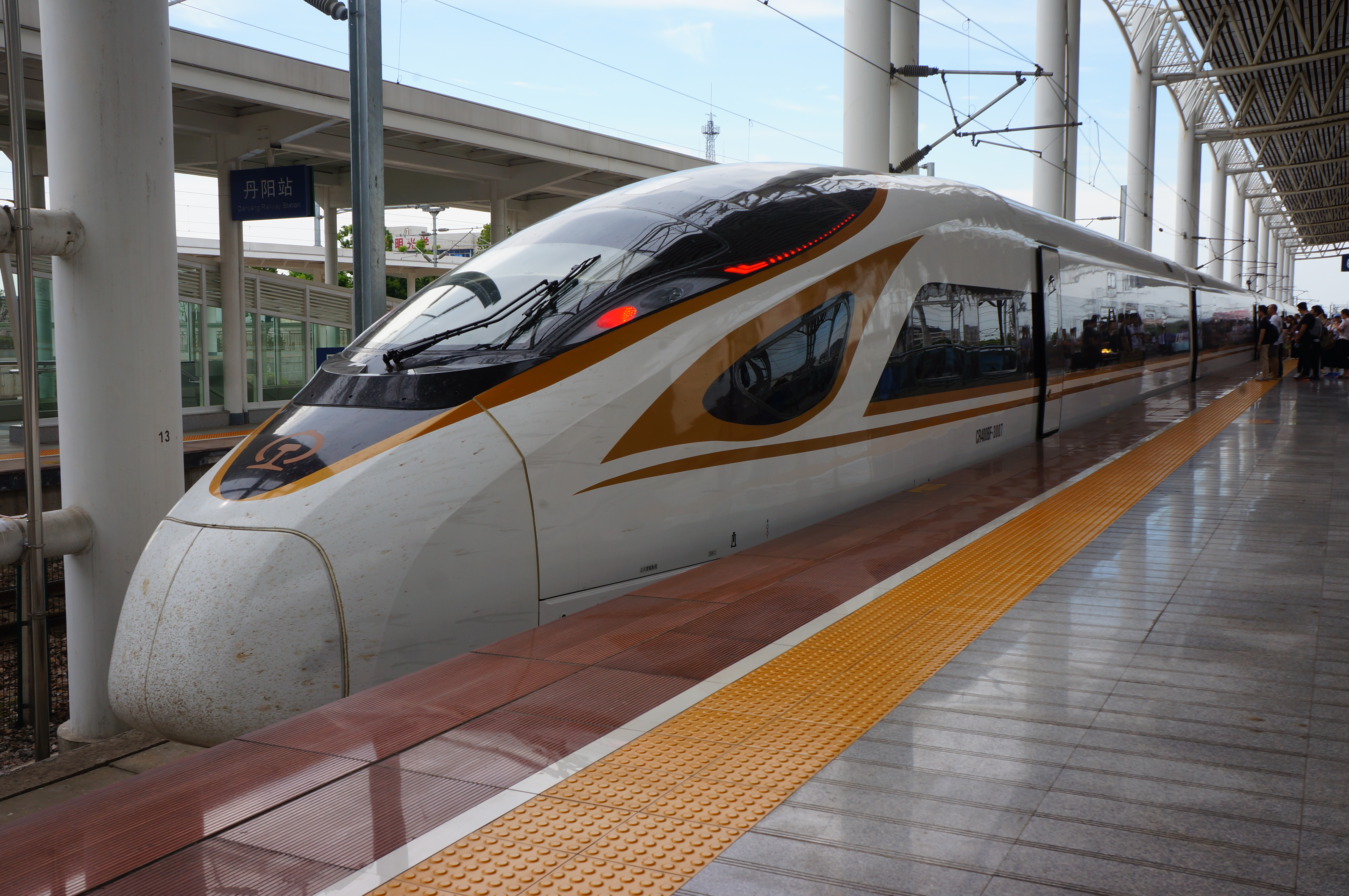 201806 CR400BF-3007 operates G7114 at Danyang Station